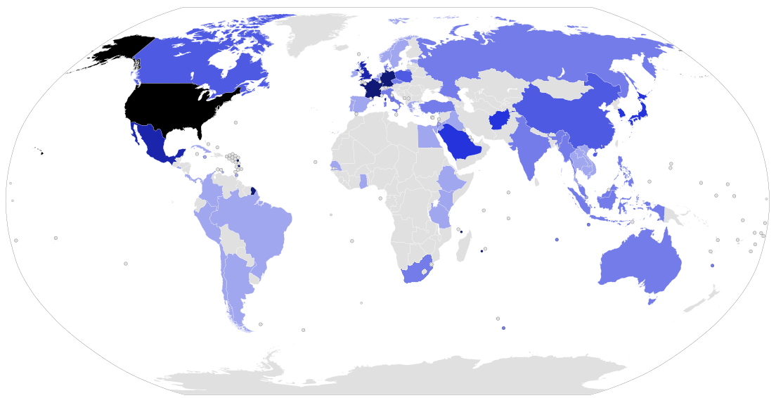 Iinternational presidential trips made by Barack Obama